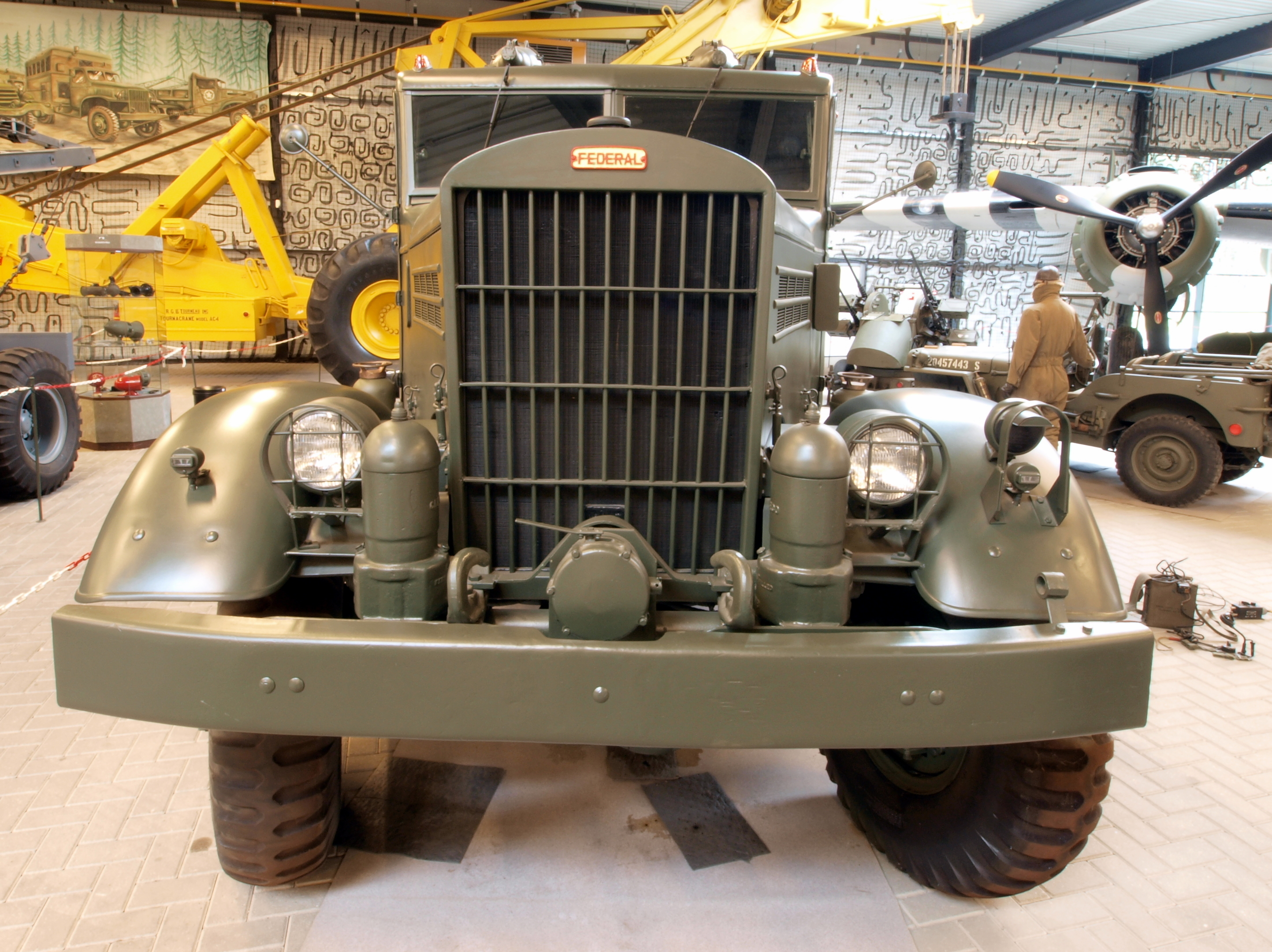 Photographed at the Marshallmuseum - Liberty Park - Oorlogsmuseum Overloon, The Netherlands. OLYMPUS DIGITAL CAMERA